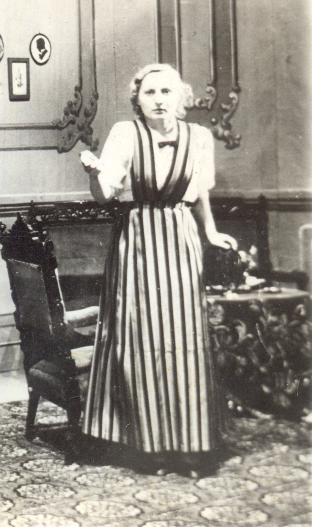 Bulgarian actress Irina Taseva staging "When Thunder Strikes" ("Kogato grum udari") by Peyo Yavorov. National Theatre, Sofia, 1939